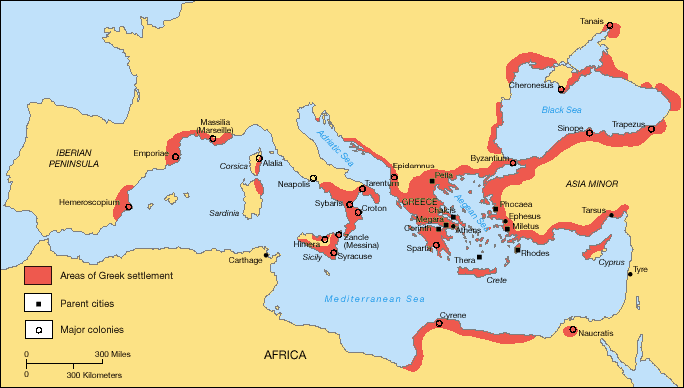 A map showing the Greek territories and colonies during the Archaic period.